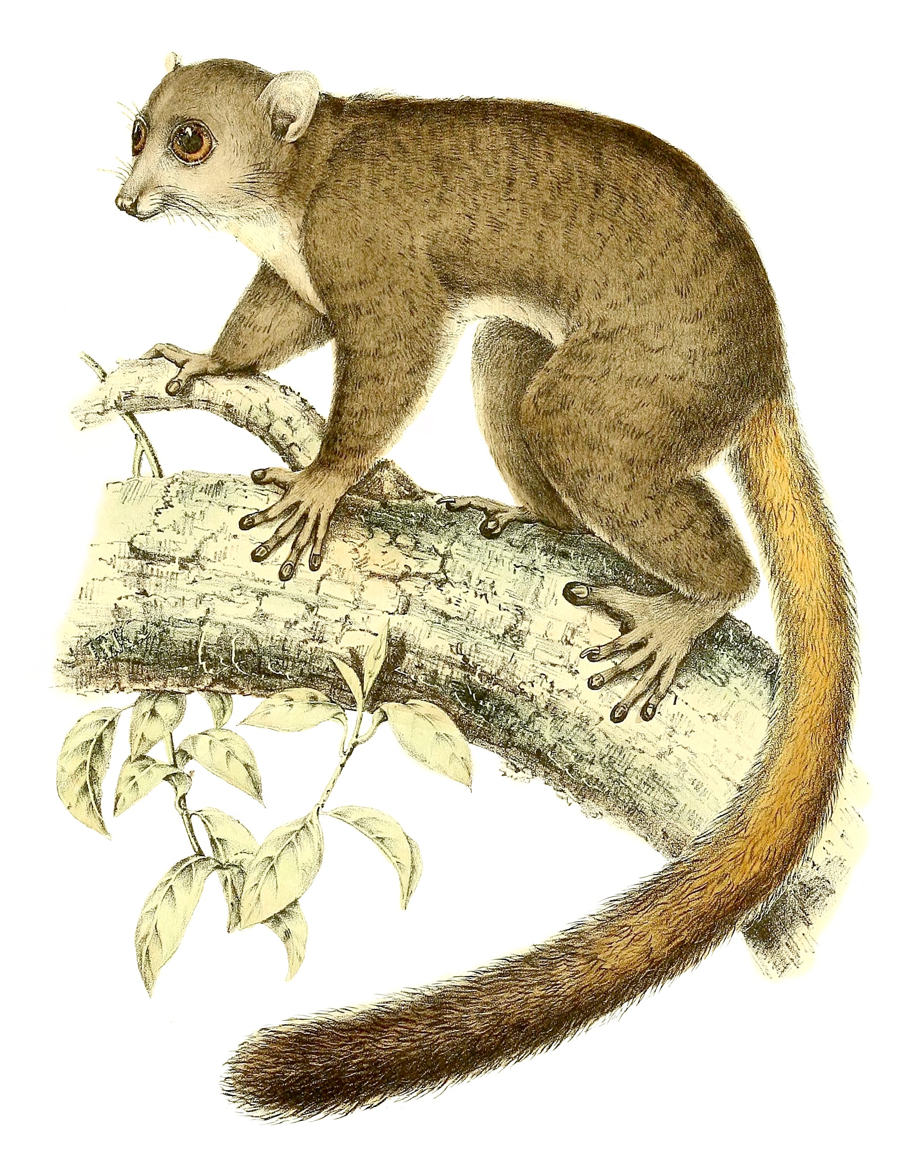 Microcebus coquereli = Mirza coquereli (Coquerel's giant mouse lemur), though based on specimens from the range of the northern giant mouse lemur, M. zaza.